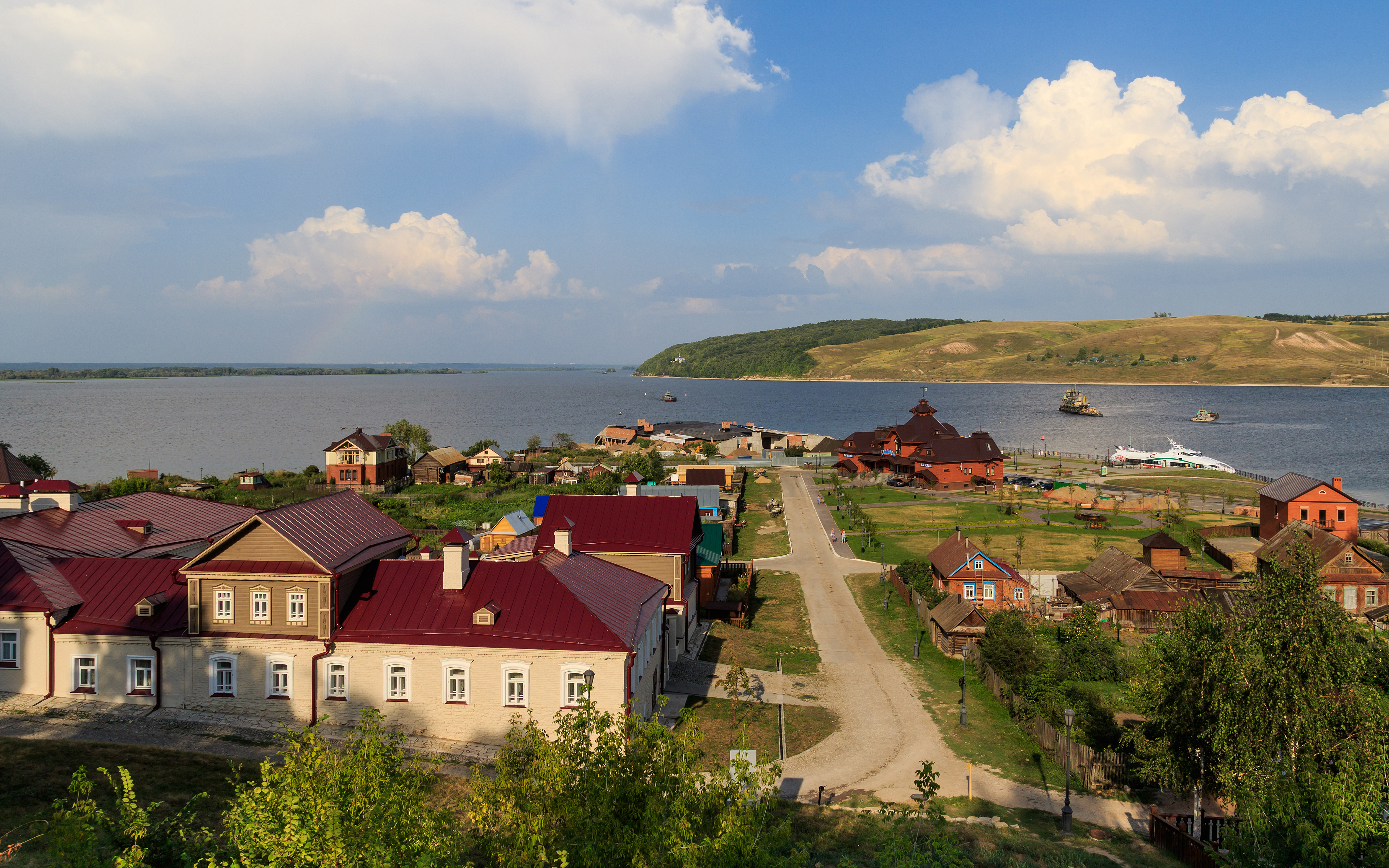 View towards Rozhdestvenskaya Street and Volga pier. Sviyazhsk, Tatarstan, Russia.